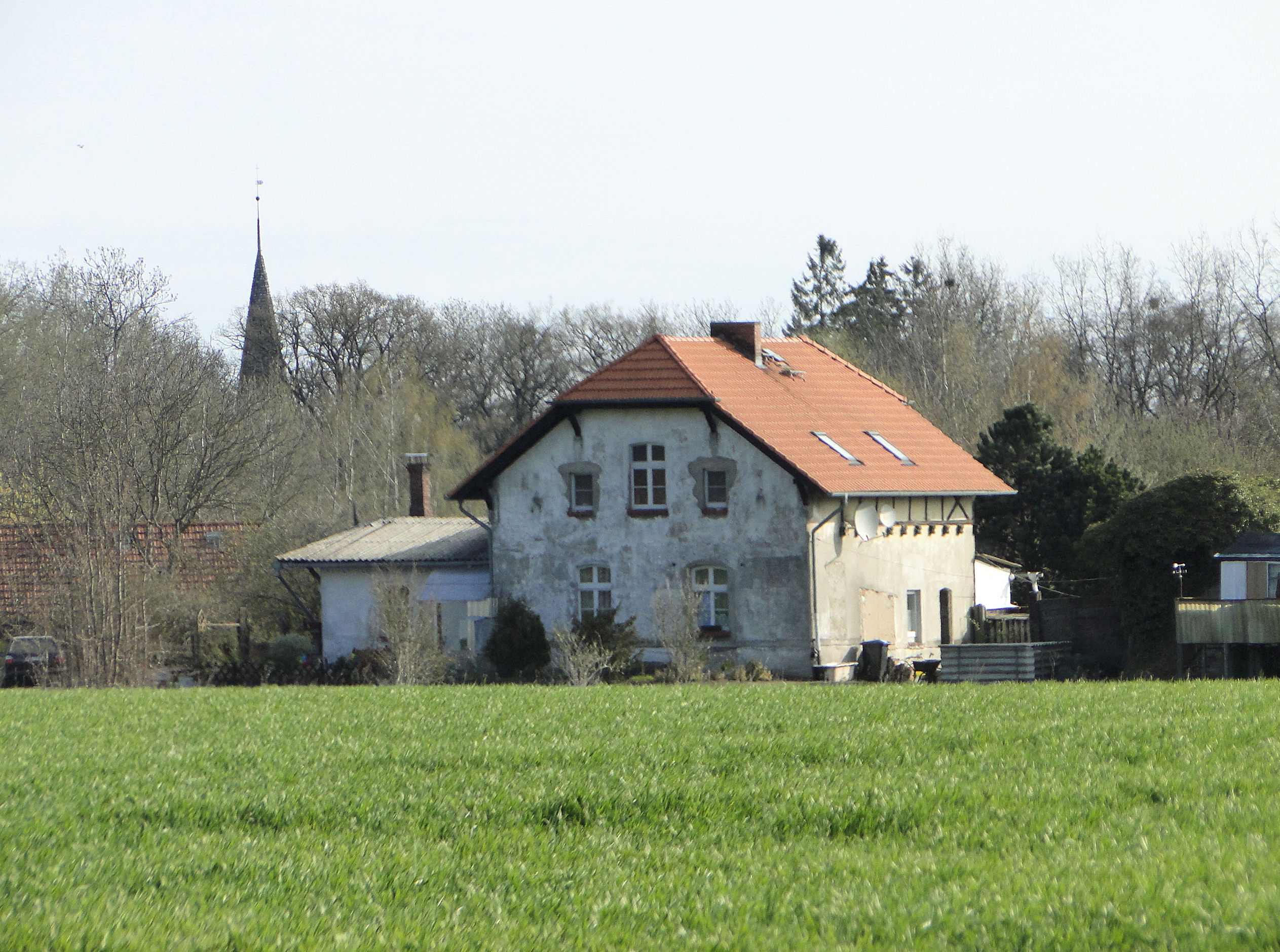 Former building of train station in Stuer in Stuer, disctrict Müritz, Mecklenburg-Vorpommern, Germany